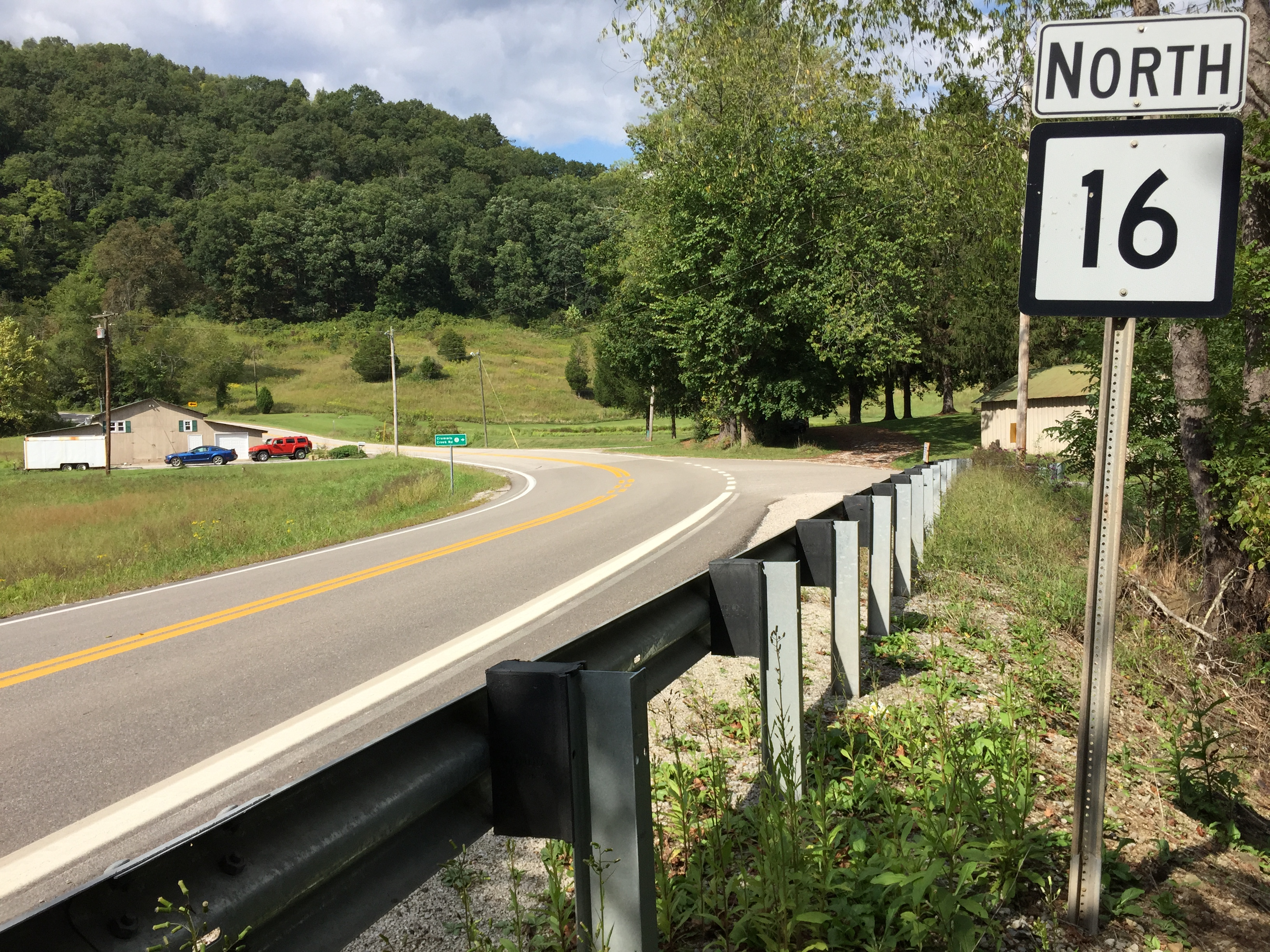 View north along West Virginia State Route 16 at Right Fork Crummies Creek Road (Calhoun County Route 16/25) in Arnoldsburg, Calhoun County, West Virginia